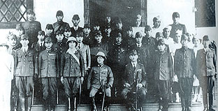 On 8 August 1942, Sibu was renamed to "Sibu-shu". After the naming ceremony, Japanese general Toshinari Maeda together with Japanese Resident of the Third Division of Sarawak had a group photo with his generals.